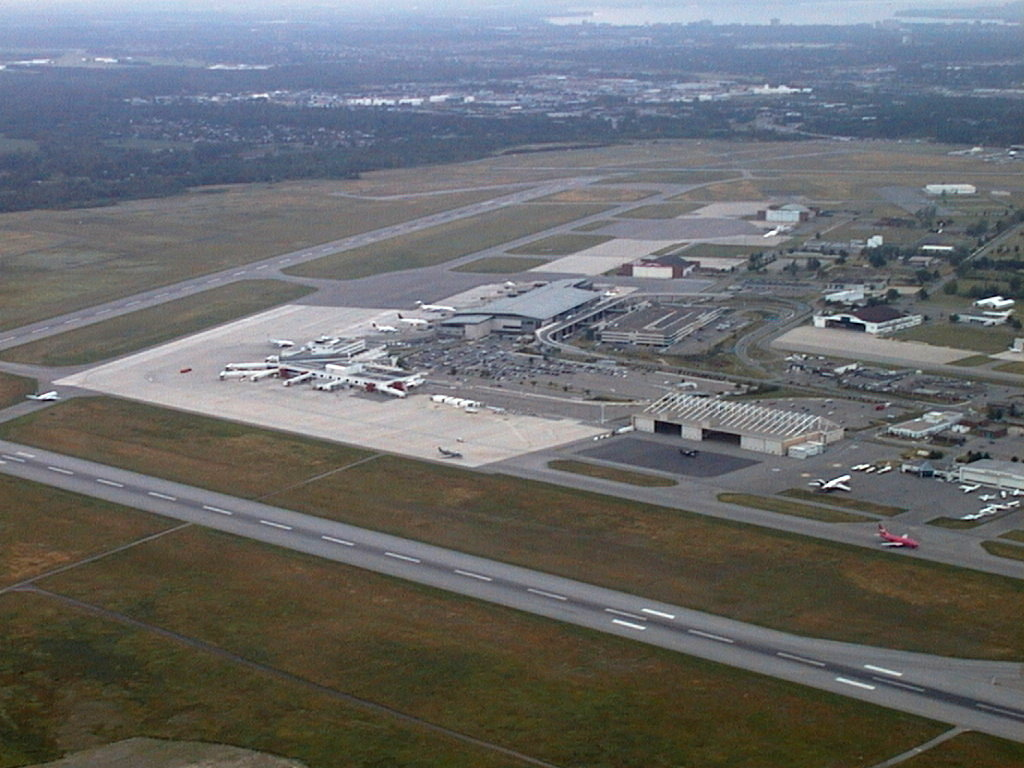 Ottawa/Macdonald-Cartier Airport, from the east.